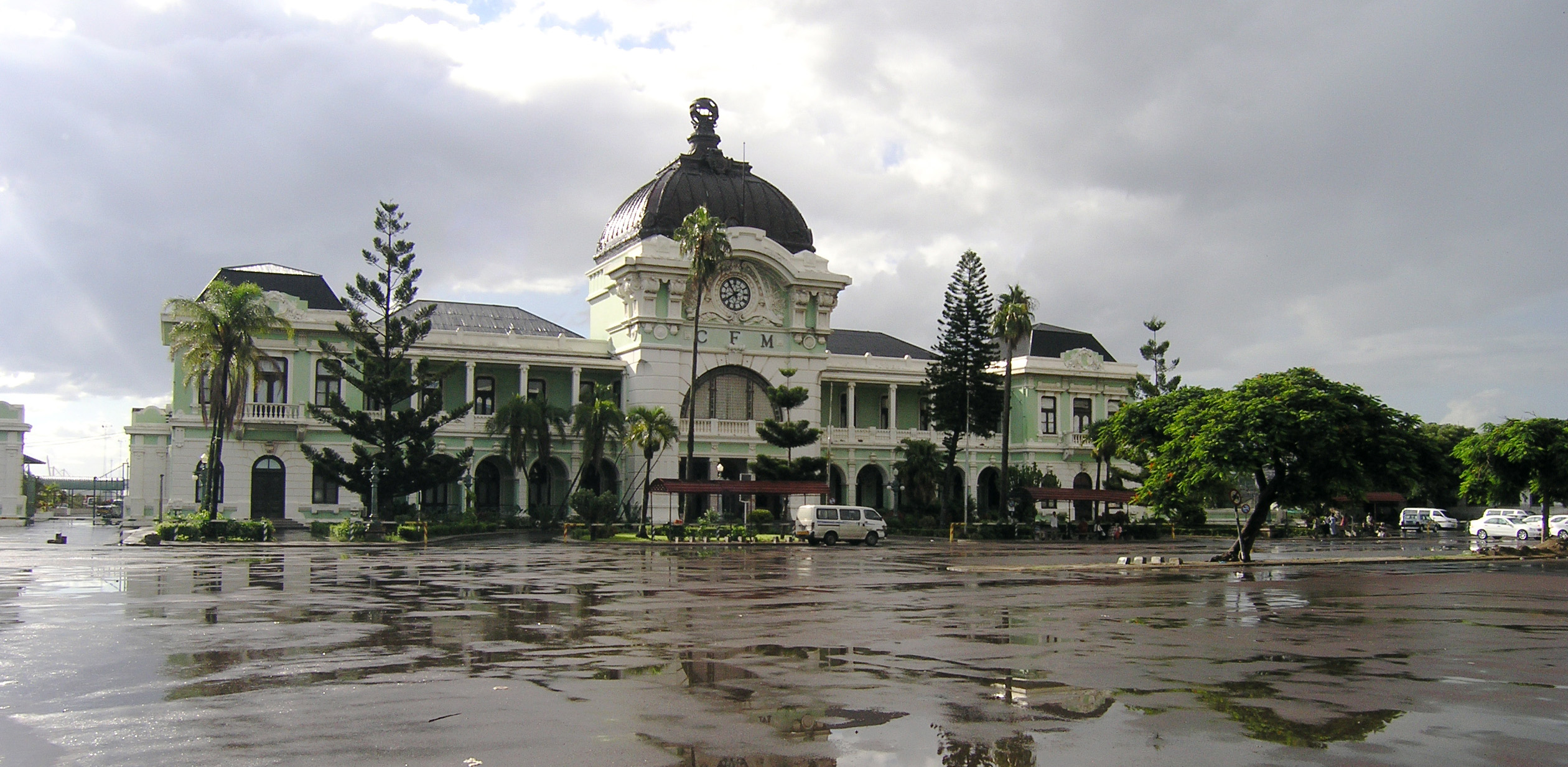 Digital photograph of Caminhos de Ferro de Mocambique, Railway Station in Maputo, Mozambique. Taken by myself, Justin K G Dumpleton, during business travel 12 March 2005. This is my own work and I release this image into the public domain.